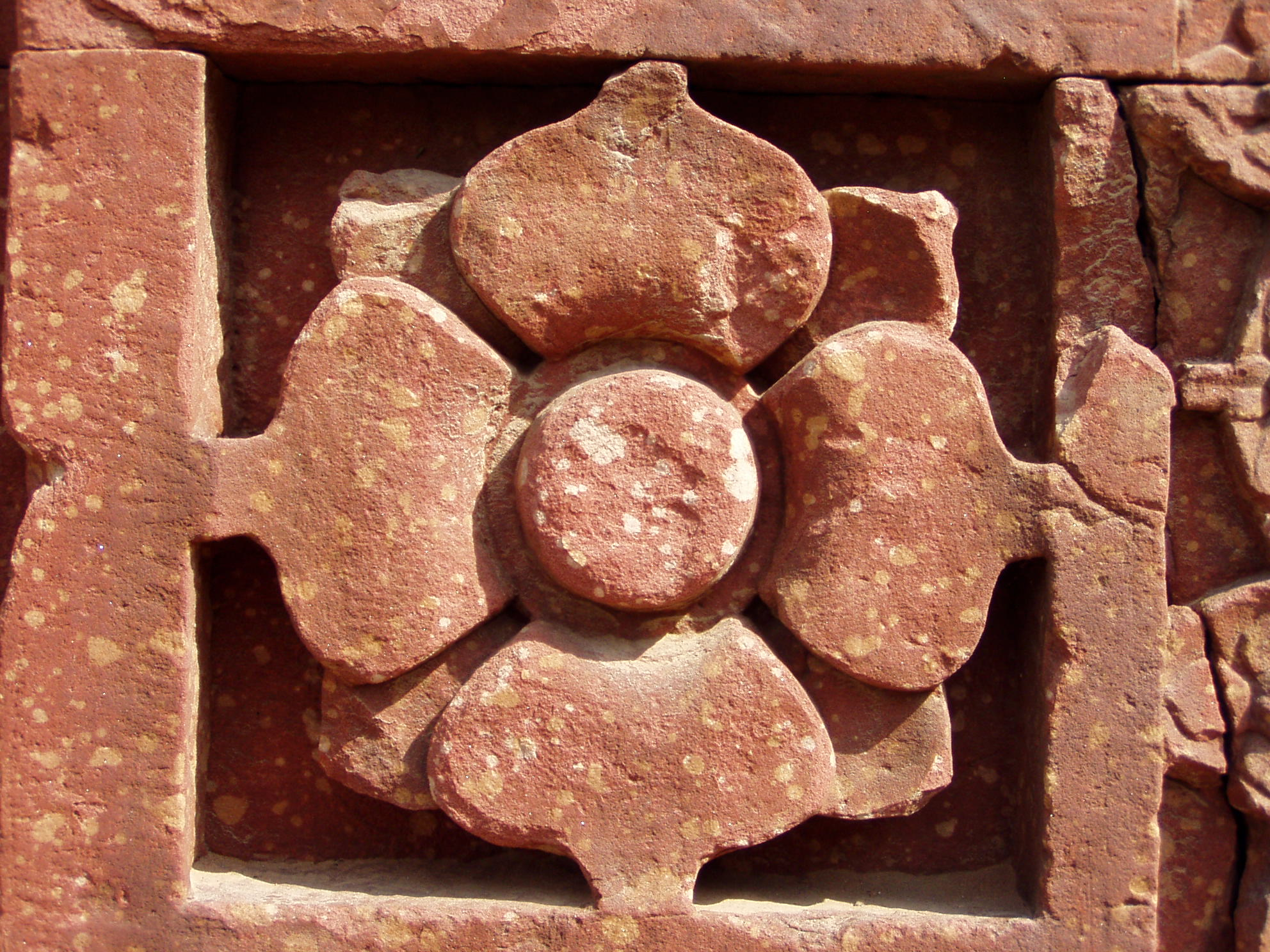 Lotus, a typical Hindu temple motive, in red sandstone, Qutb complex.